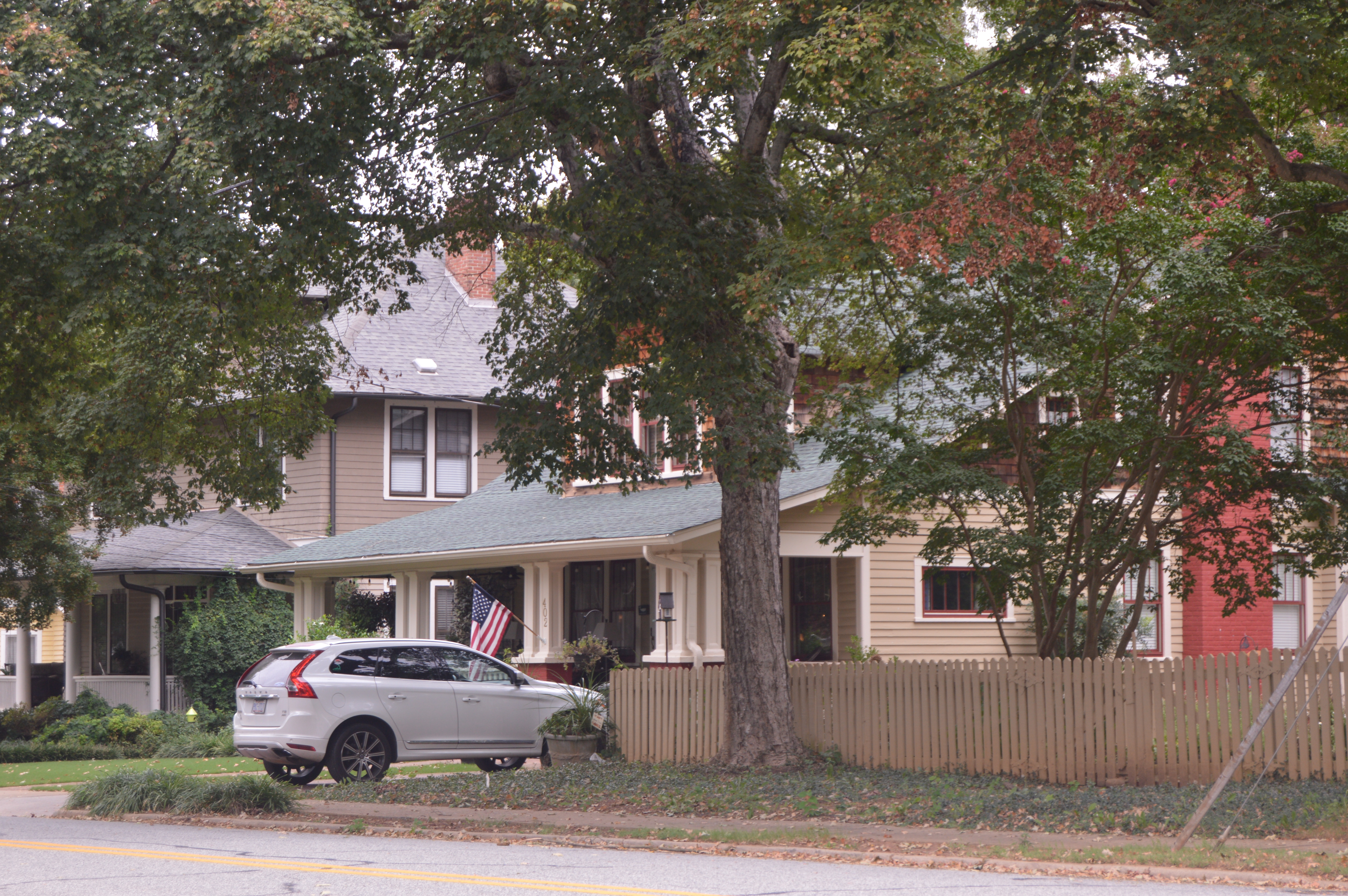 Houses on the northeastern side of Second Avenue between Williams and Vance Streets in Lexington, North Carolina, United States. This block is part of the Lexington Residential Historic District, a historic district that is listed on the National Register of Historic Places.